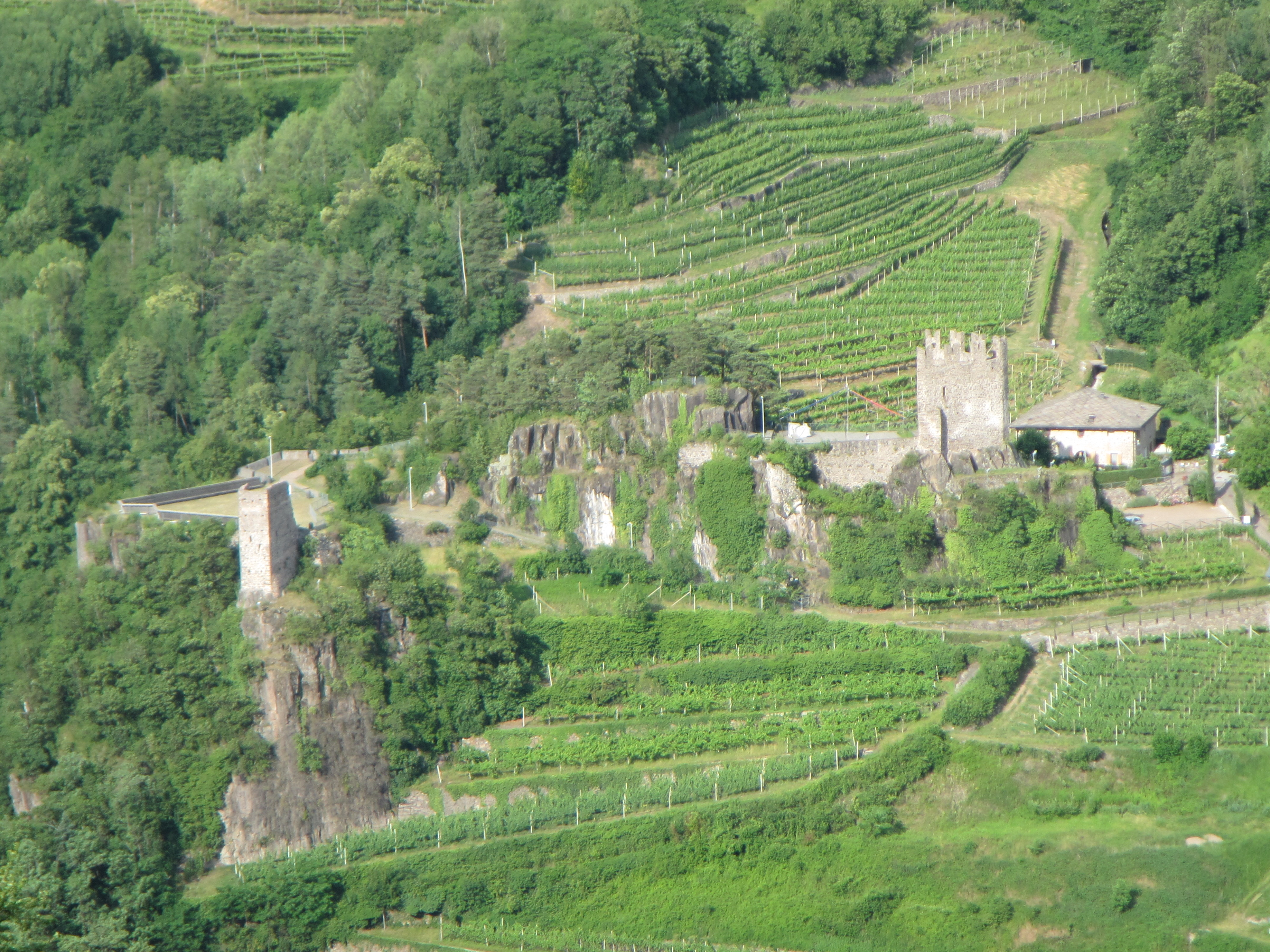 Castle of Segonzano - view from Faver